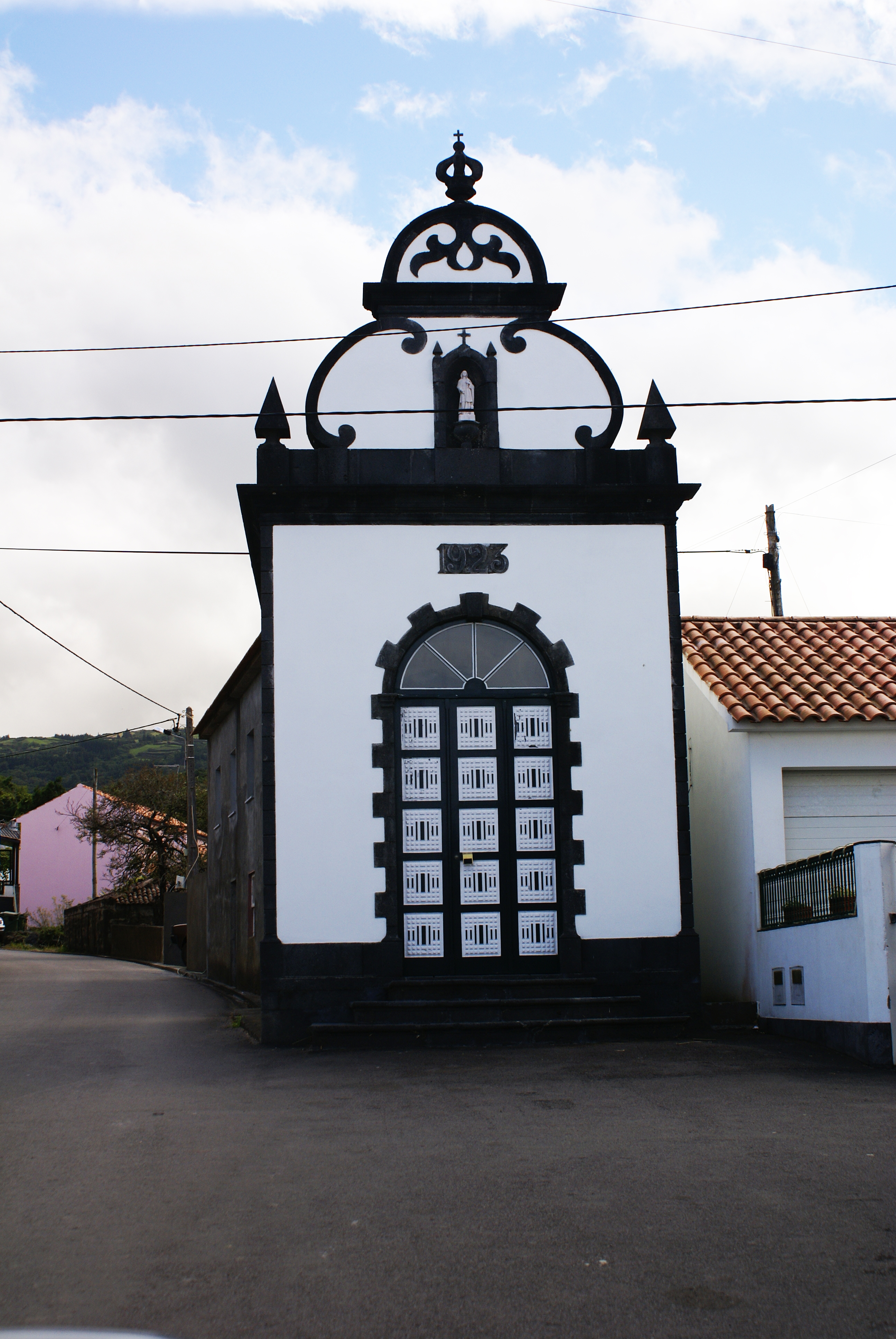 The Império do Espírito Santo of Praça, Cedros, Horta, Faial (Azores), Portugal